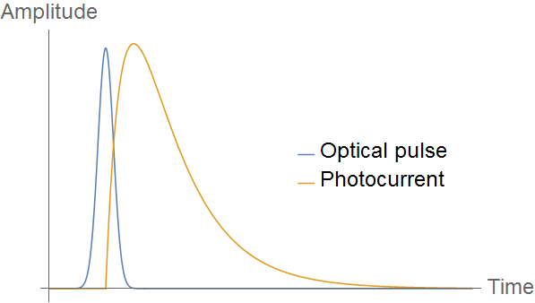 Illustration for time-domain response of an optically gated photoconductive antenna